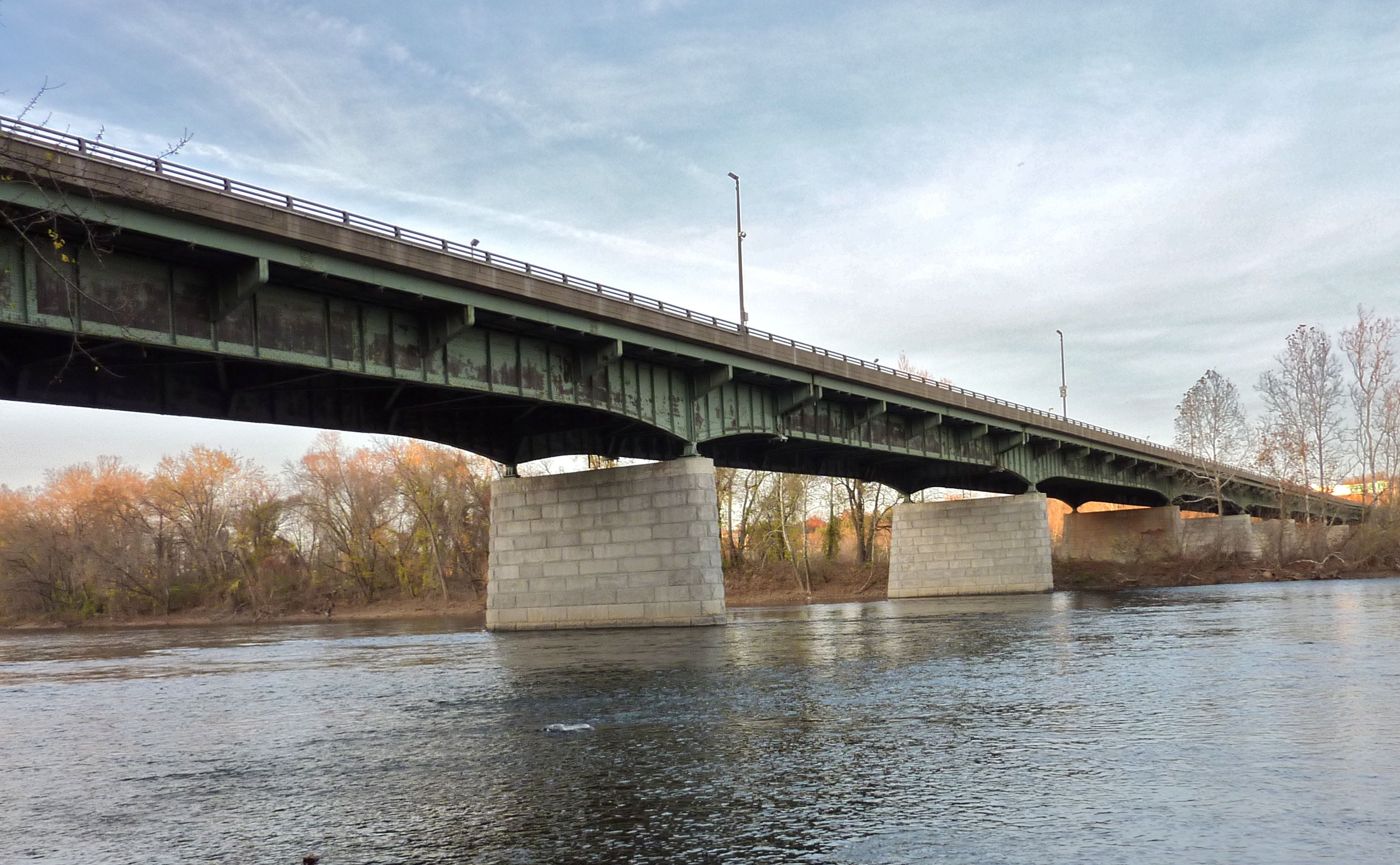 Scudders Falls Bridge seen from Yardley, Pennsylvania